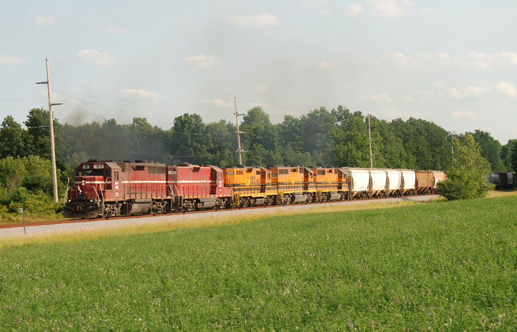 Northbound salt train, just outside of Retsof.